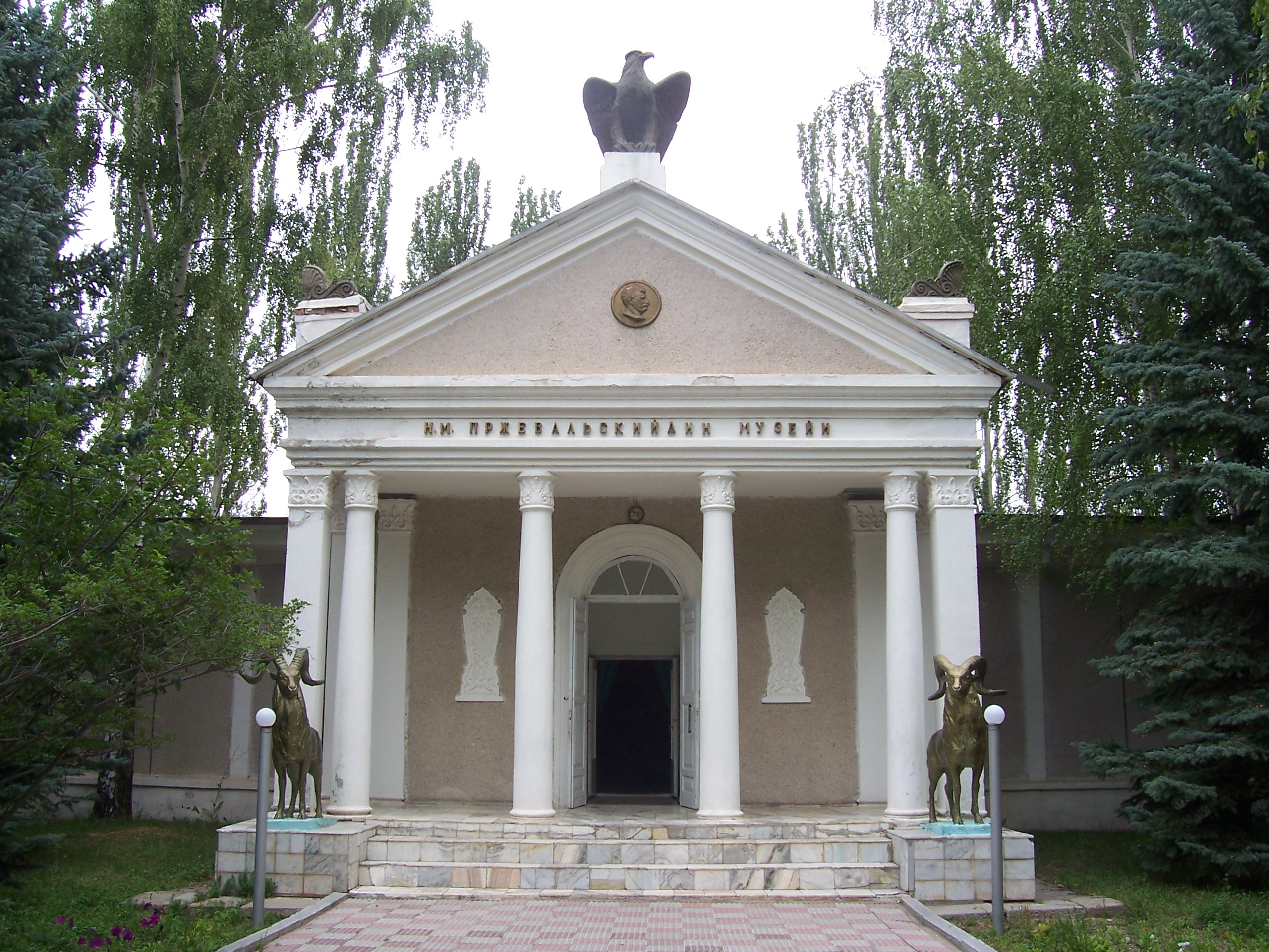 Enter of Entrée Prjevalski's museum at Karakol